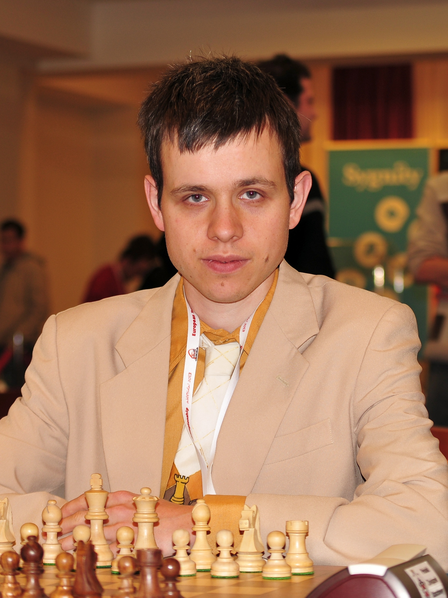 GM David Navara, European Chess Team Championship Warsaw 2013